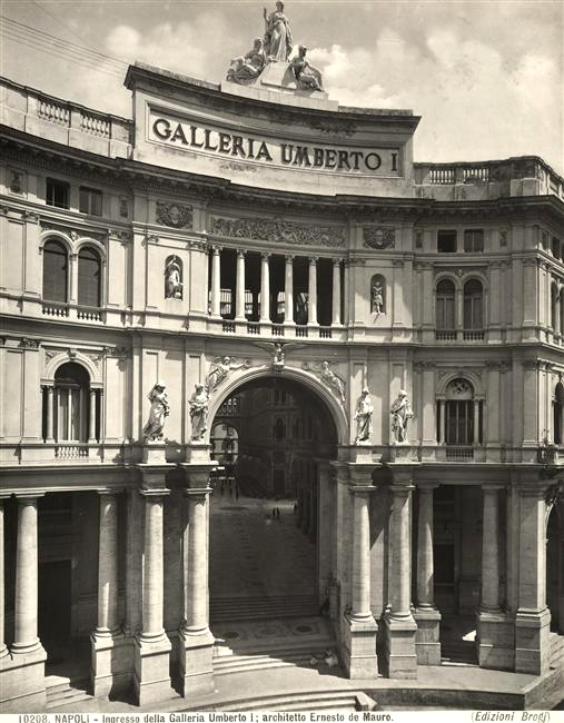 Carlo Brogi (1850-1925) - "Naples - Entrance to the "Galleria Umberto I", by architect Ernesto di Mauro". Catalogue # 10208 .